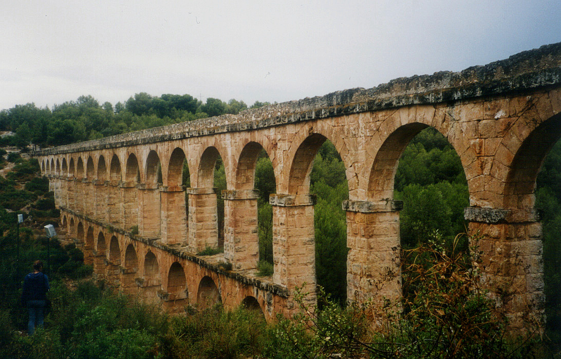 Roman acqueduct near Tarragona, Catalonia, Spain.